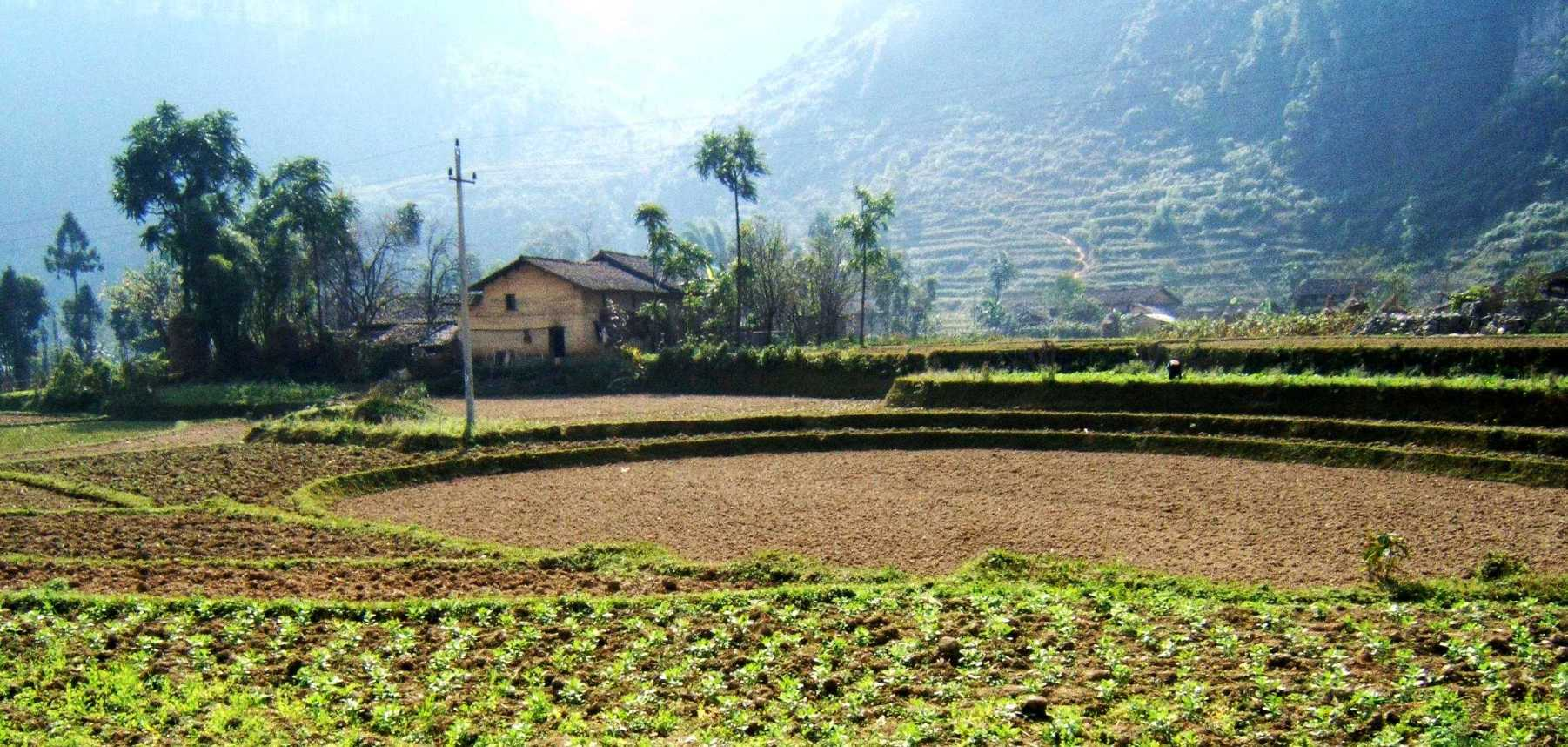 Sink Hole in Pho Cao commune, Hà Giang province, Vietnam, 2005.